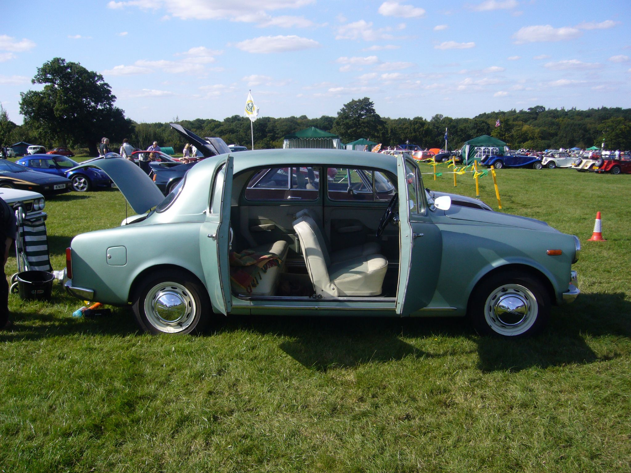 No, the doors really did open like that !